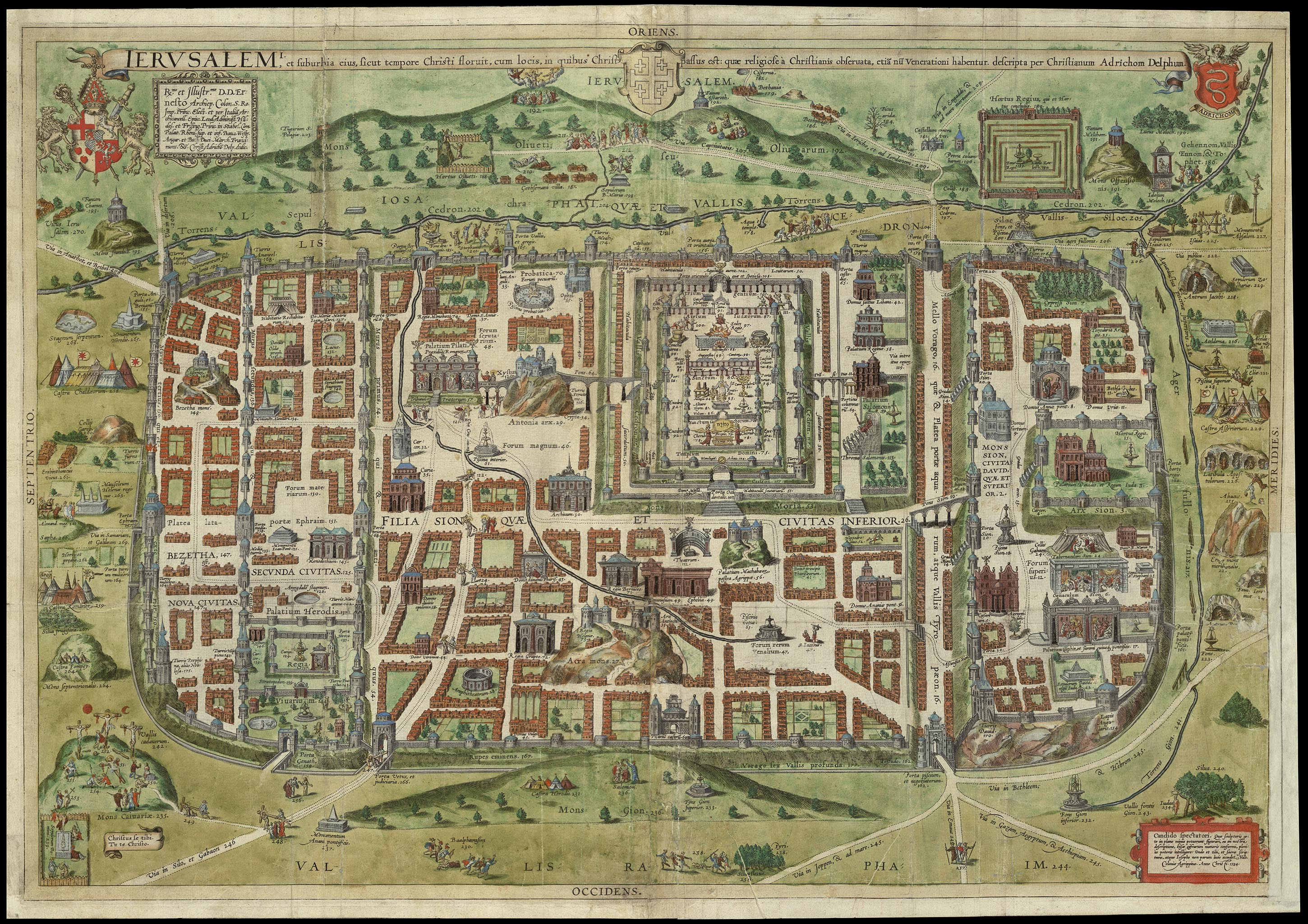 Jerusalem and its suburbs, as it was in the time of Christ, by Adrichem, 1584, printed 1590. [Click here to zoom [Dimensions: 505x735 mm.]